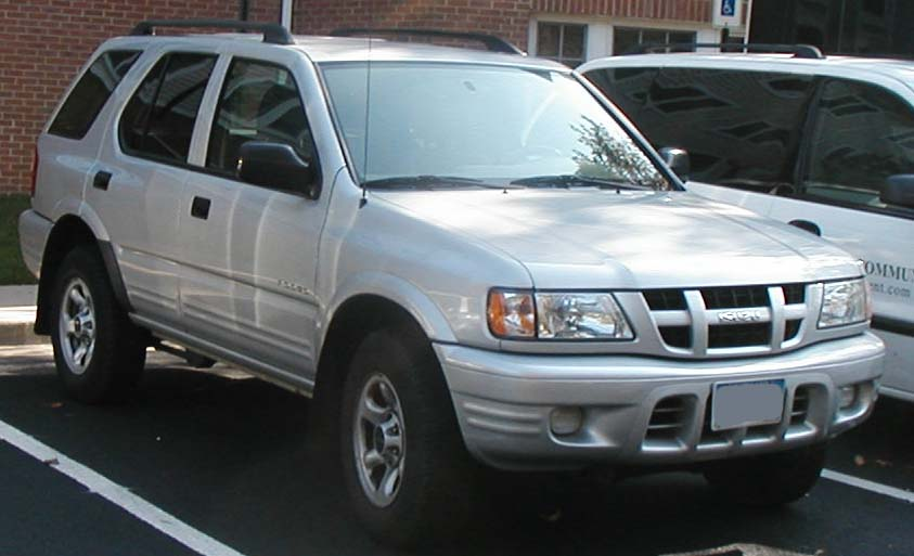 2004 Isuzu Rodeo photographed in USA.